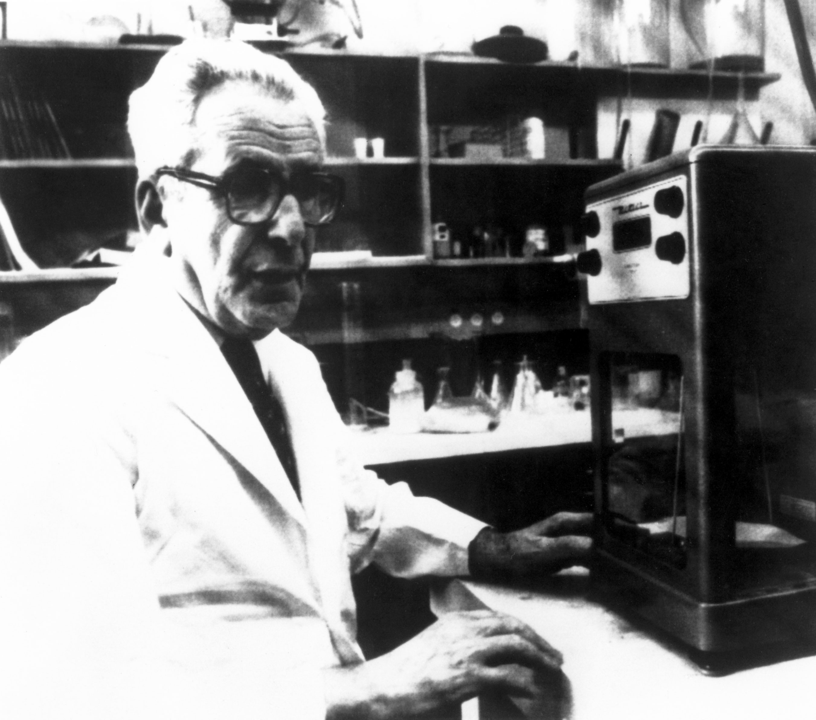 Title: Historical Portrait: Isaac Berenblum Description: Isaac Berenblum, M.D. is the recipient of the Alfred P. Sloan, Jr., Award given 1980 by the General Motors Cancer Research Foundation. Subjects (names): Berenblum, Issac Topics/Categories: Historical -- People People -- Adult Type: B&W Source: General Motors Cancer Research Foundation Author: Unknown Date Created: Unknown Date Added: 1/11/2010 Reuse Restrictions: None - This image is in the public domain and can be freely reused. Please credit the source and/or author listed above.